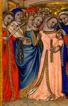 The marriage (detail of bride and ladies)